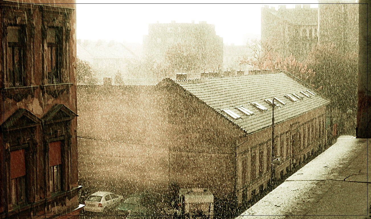 Rain